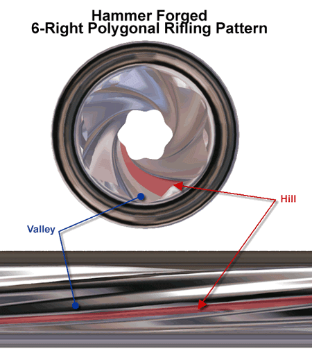 Hammer forged 6-right polygonal rifling pattern.